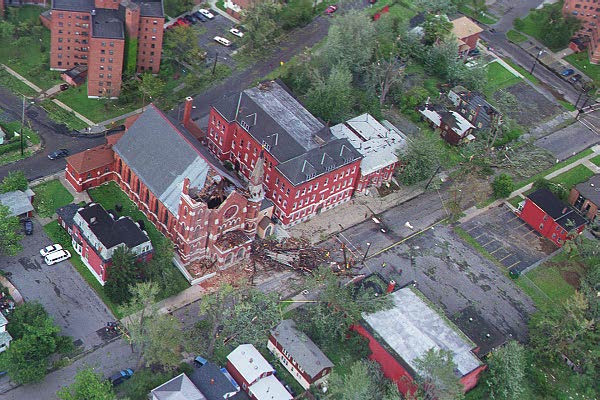 St. Lucy Catholic church in the downtown Syracuse, NY, lost one of its steeples.